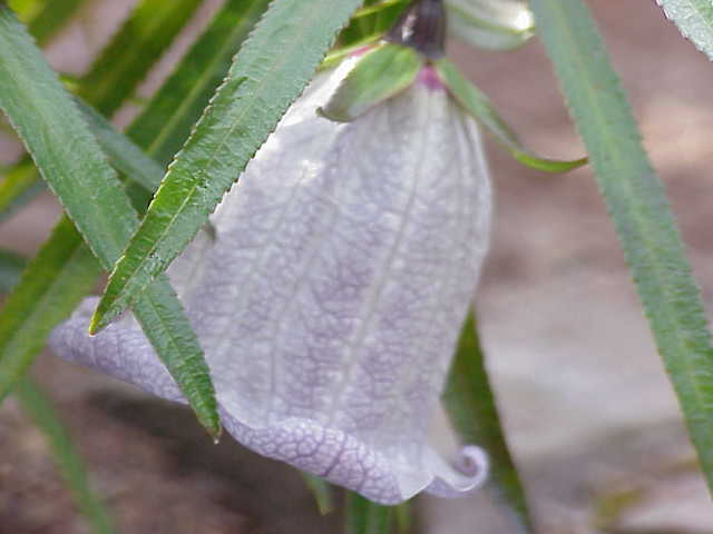 Species: Nesocodon mauritianus Family: Campanulaceae Image No. 1